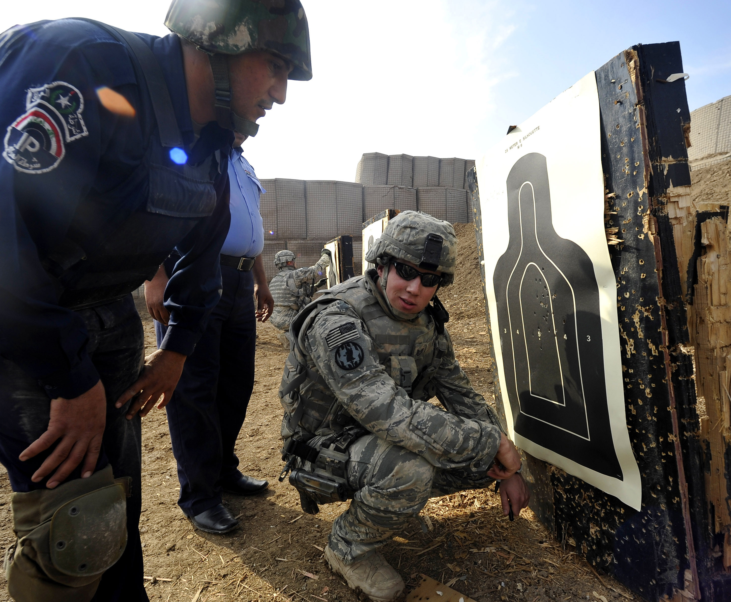 U.S. Air Force Staff Sgt. Michael Gomez, with Detachment 2, 732nd Expeditionary Security Forces Squadron, assesses an Iraqi police officerâ€™s target on a firing range in Baghdad, Iraq, on Nov. 21, 2009.